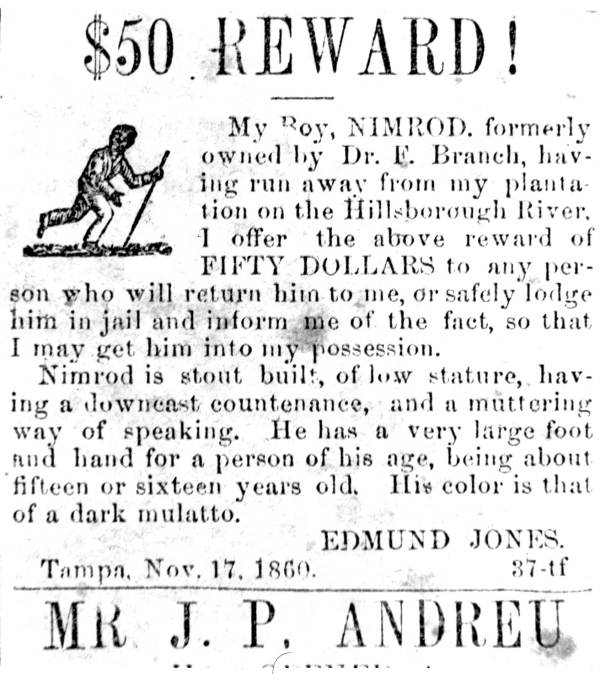 Local call number: N041082 Title: Tampa Newspaper ad offering a reward for the return of Dr. Edmund Jones' slave, Nimrod: Tampa, Florida Date: November 17, 1860 Physical descrip: 1 photonegative; b&w; 4 x 5 in. Series title: General collection Repository: State Library and Archives of Florida, 500 S. Bronough St., Tallahassee, FL 32399-0250 USA. Contact: 850.245.6700. Persistent URL